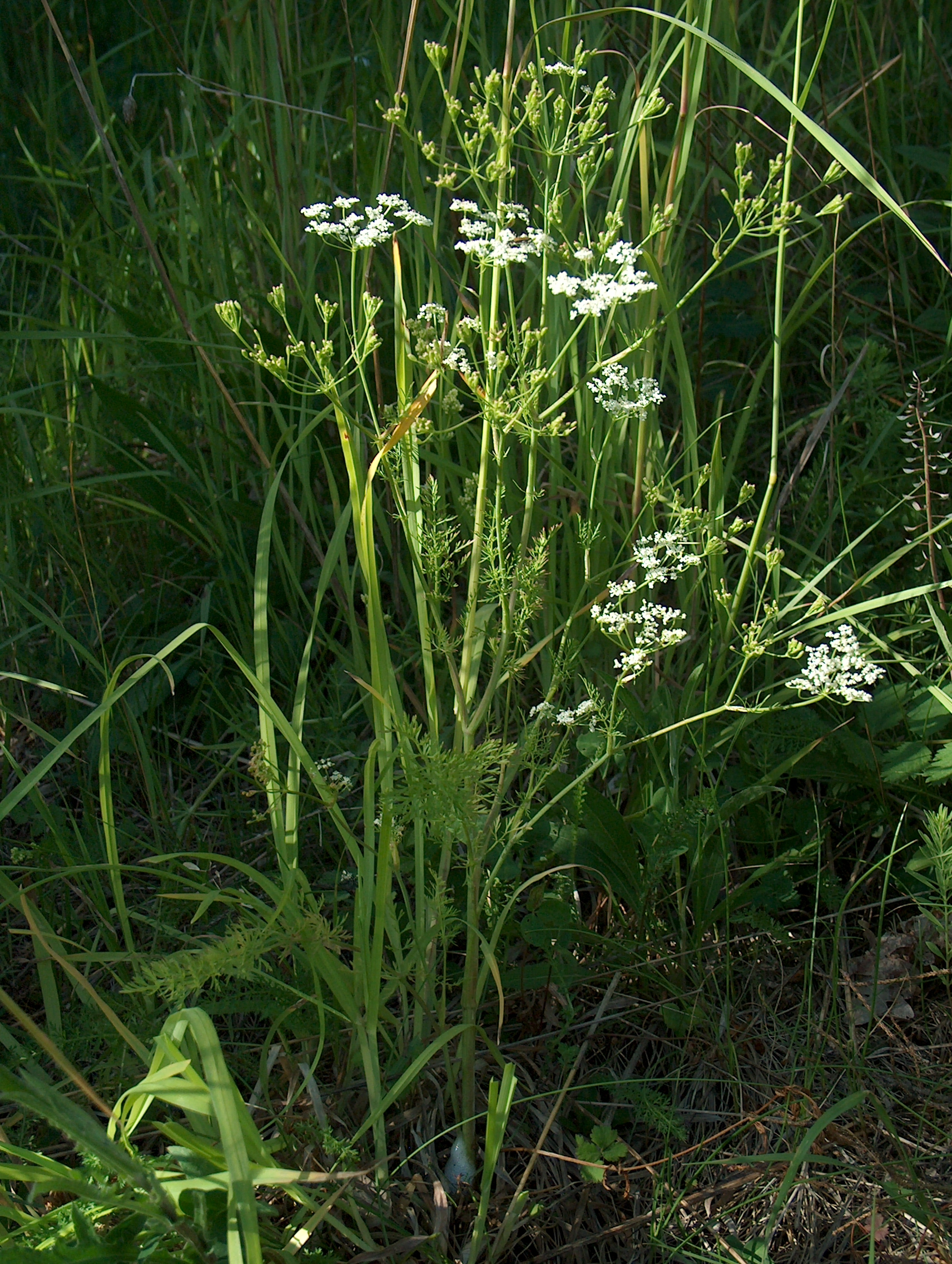 Carum carvi - White caraway flowering in Kerava, Finland.